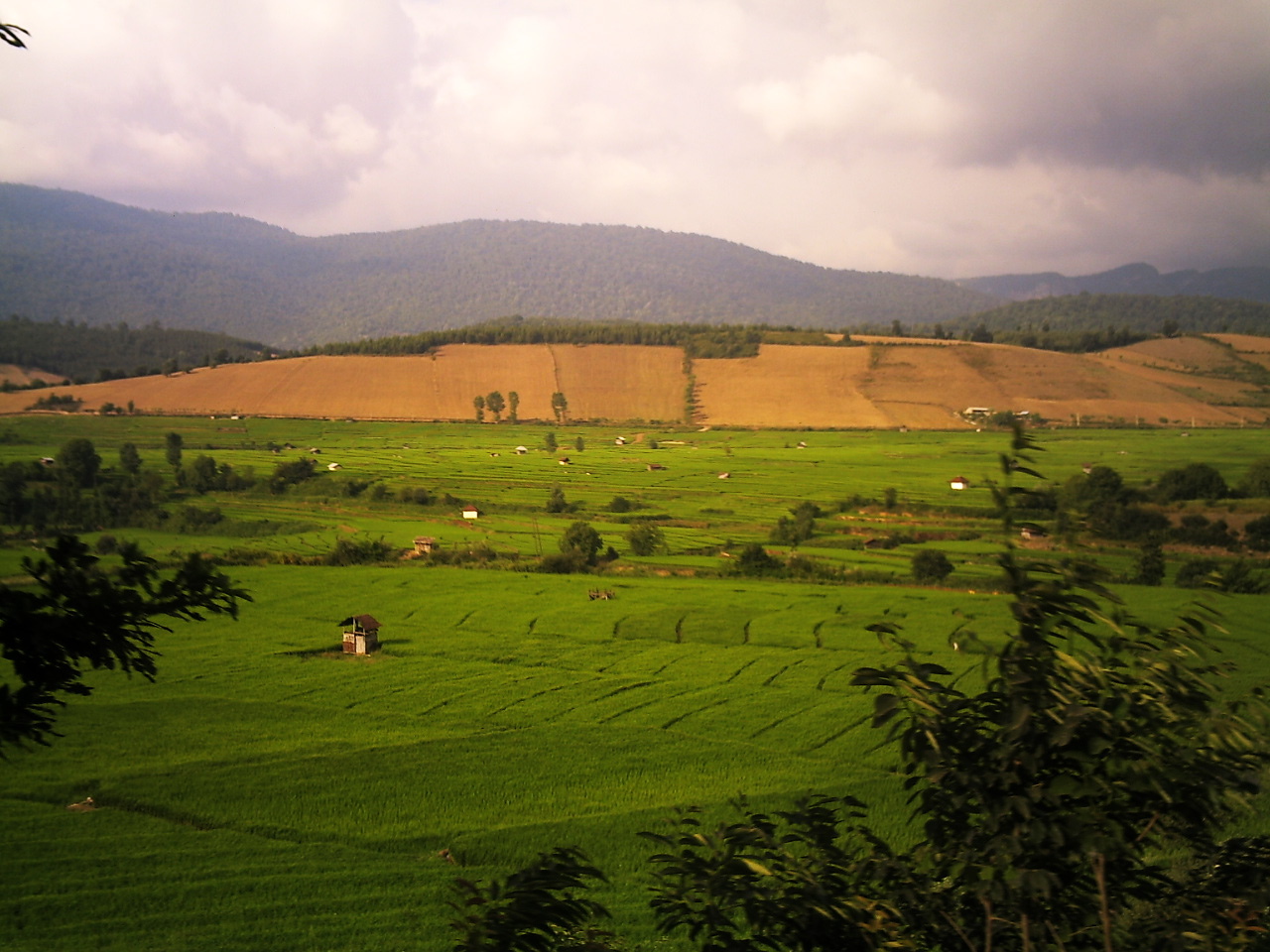 Rice fields (shalizar) in Iran. Mazandaran, Iran